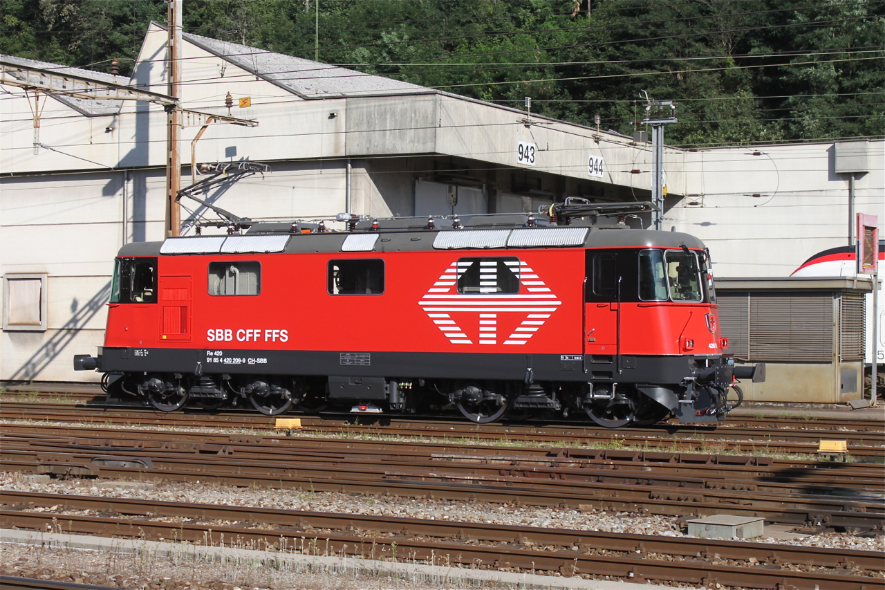 SBB CFF FFS Re 420 209 at Bellinzona.